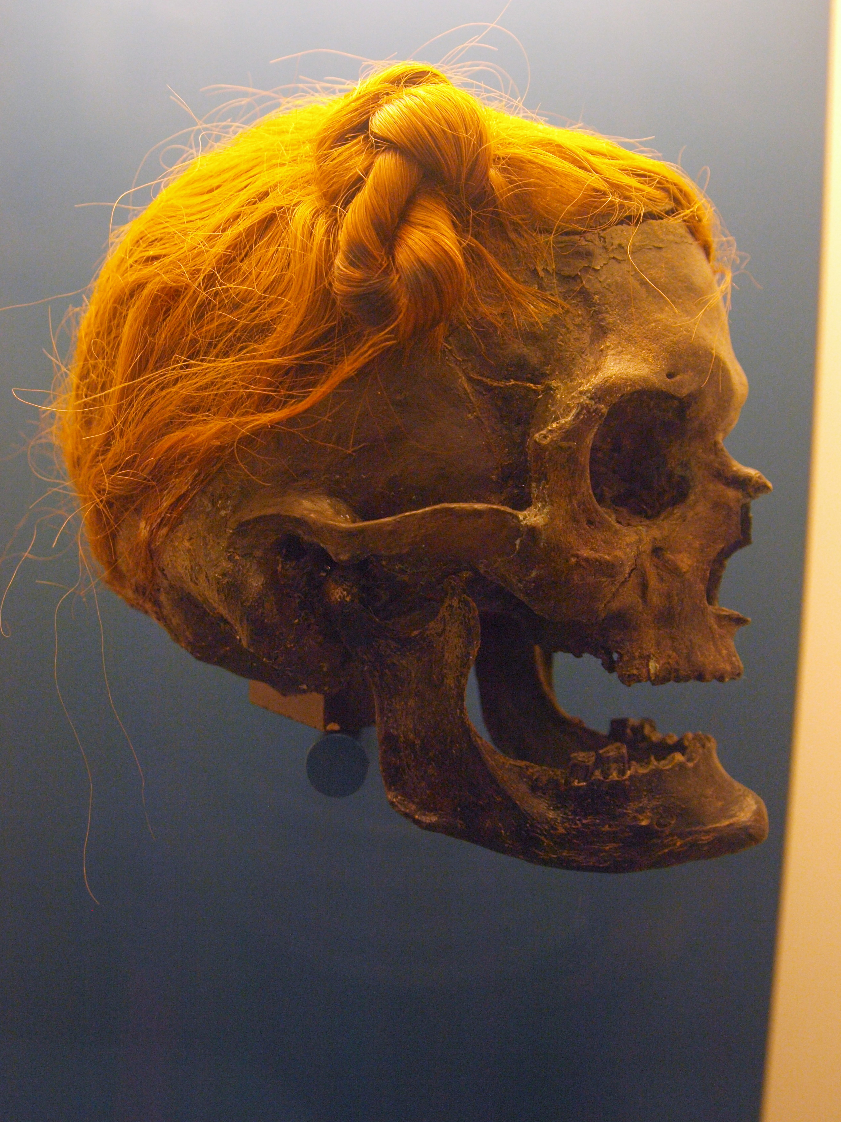 Suebian knot of bog body of the Osterby Man, on display at Archäologisches Landesmuseum Gottorf Castle, Schleswig Germany. Found in 1948 in the Köhlmoor near Osterby. C14 dated beween 75 and 130 AD.